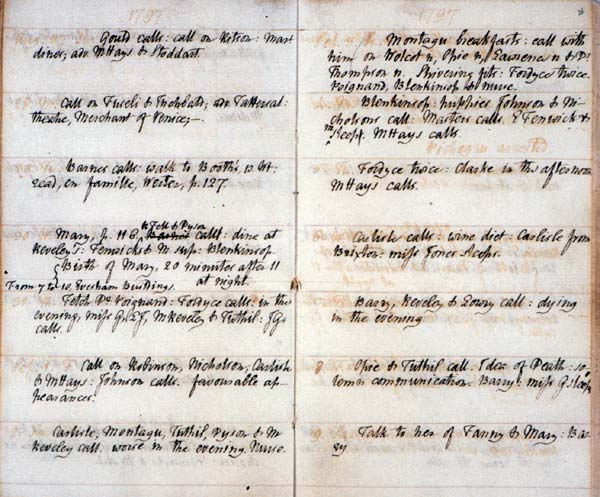 Page from William Godwin's journal recording Mary Wollstonecraft Godwin's (Mary Shelley's) birth on 30 August 1797; held at the Bodleian Library